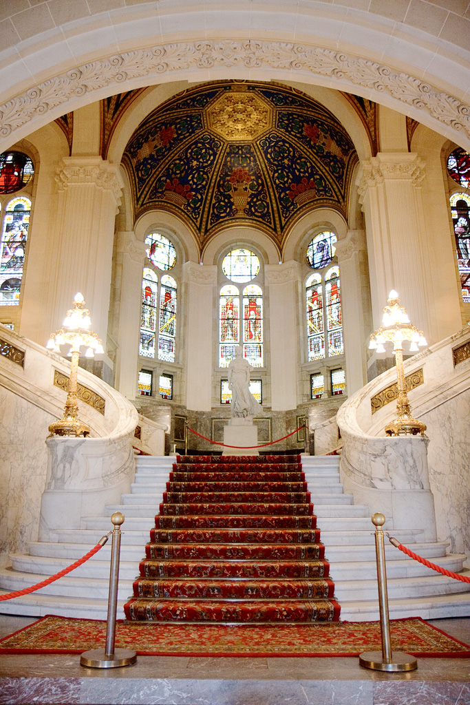 Photo of the Main Hall of the Peace Palace which hosts the International Court of Justice and the Permanent Court of Arbitration